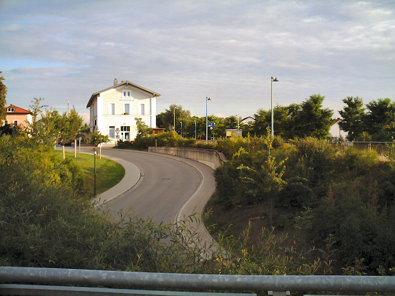 Photo taken by User:Startaq.